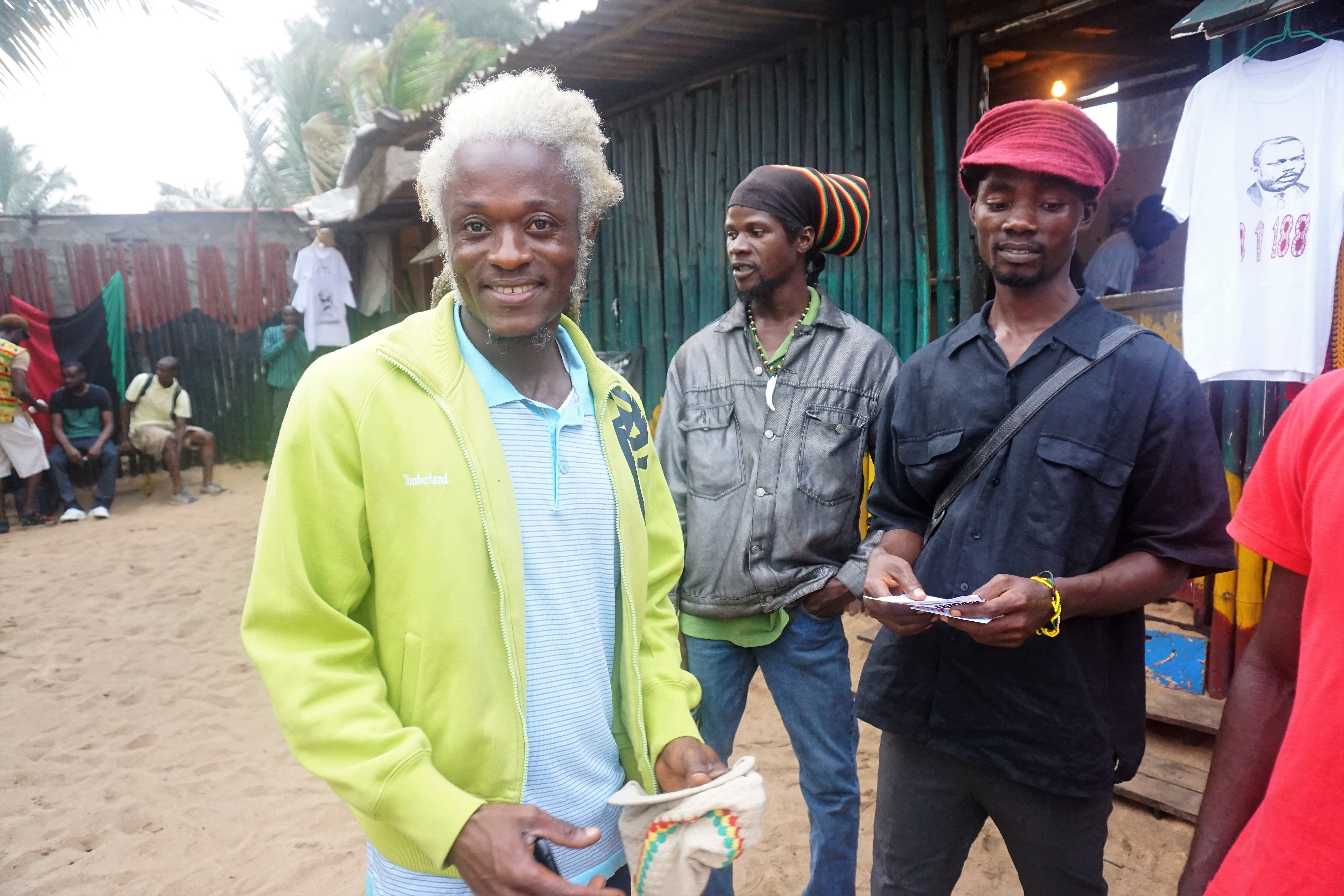 This is an image from Liberia